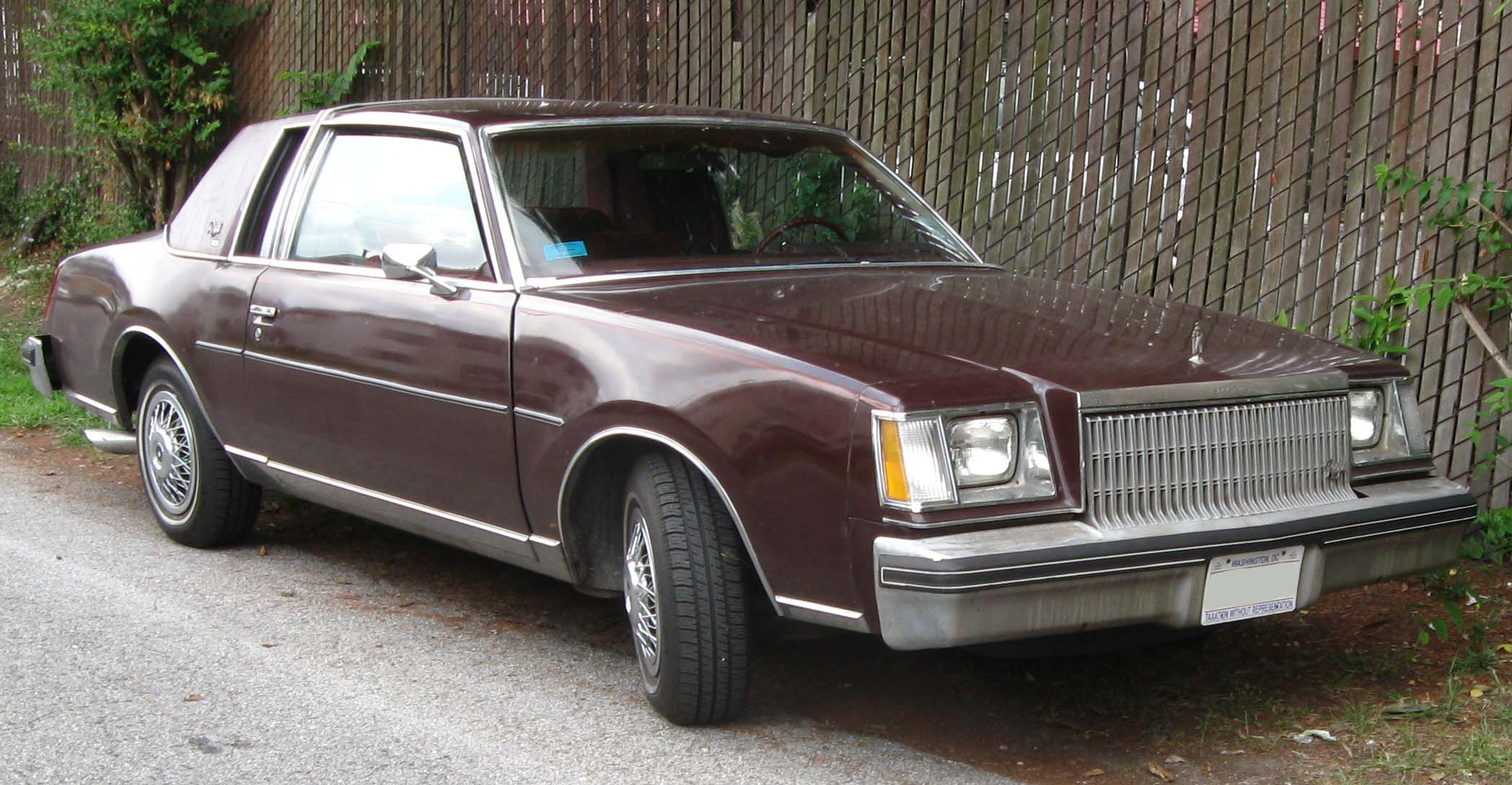 Buick Regal coupe photographed in Washington, D.C., USA.